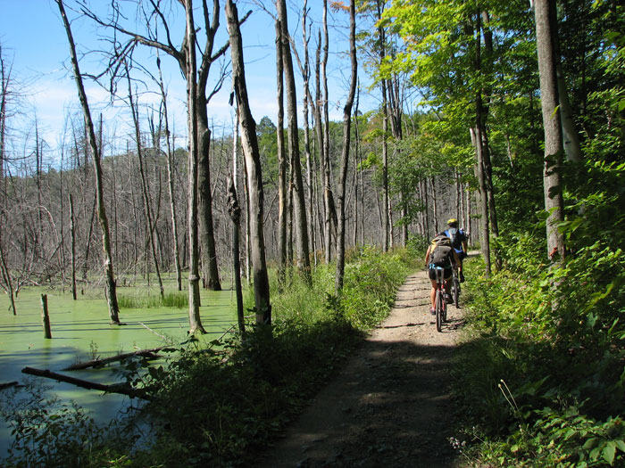 Wilder Mendez